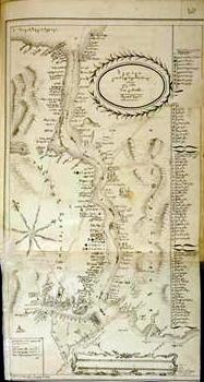 A folio from the manuscript of Giorgi Avalishvili's Middle Eastern travelogue showing the author's route, 1820